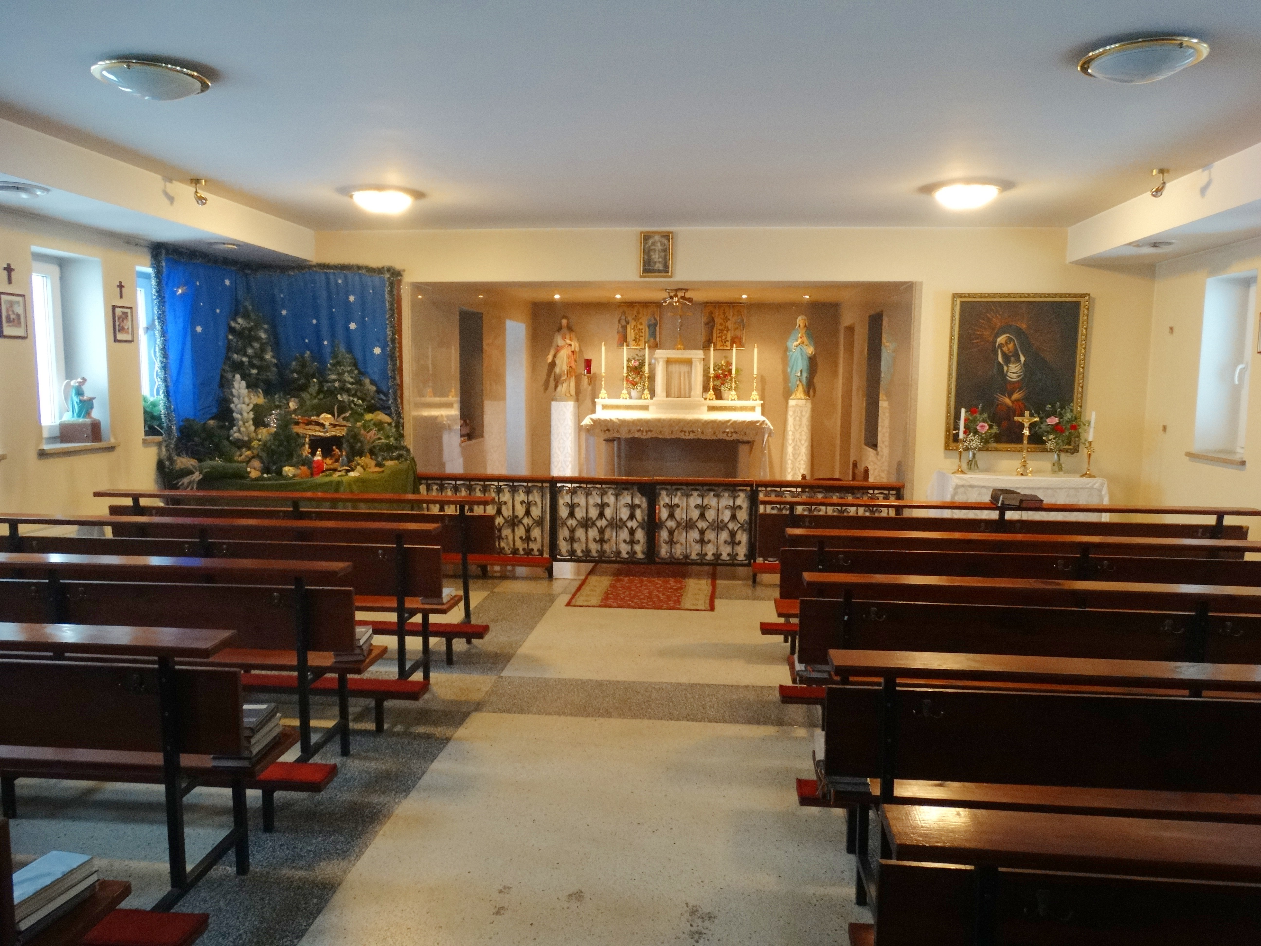 Chapel named after Dawn Gate's St. Mary, run by Society of Saint Pius X, Panemunė, Kaunas, Lithuania